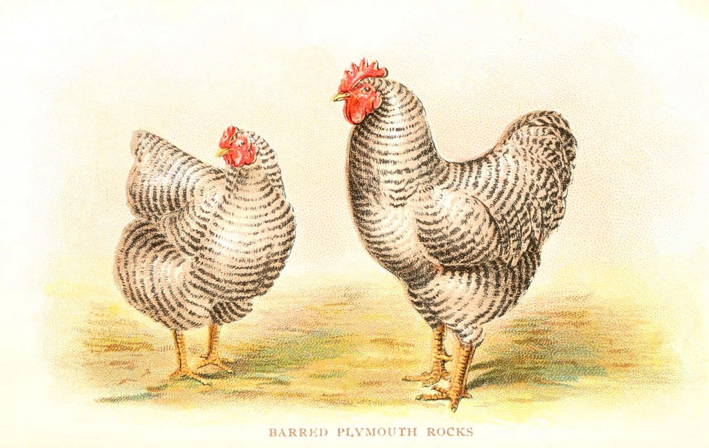 Two chickens